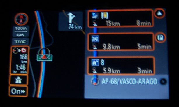 Tactile screen of the navigating GPS(GLOBAL POSITIONING SYSTEM) of a Toyota Rav4. The image shows the map of location of the vehicle, the kilometres to come to the destination, the time estimated, the distance that remains for the next event, the denomination of the road where you are circulating and the next exits that exist in the highway, its typology, distance and times estimated to reach them.